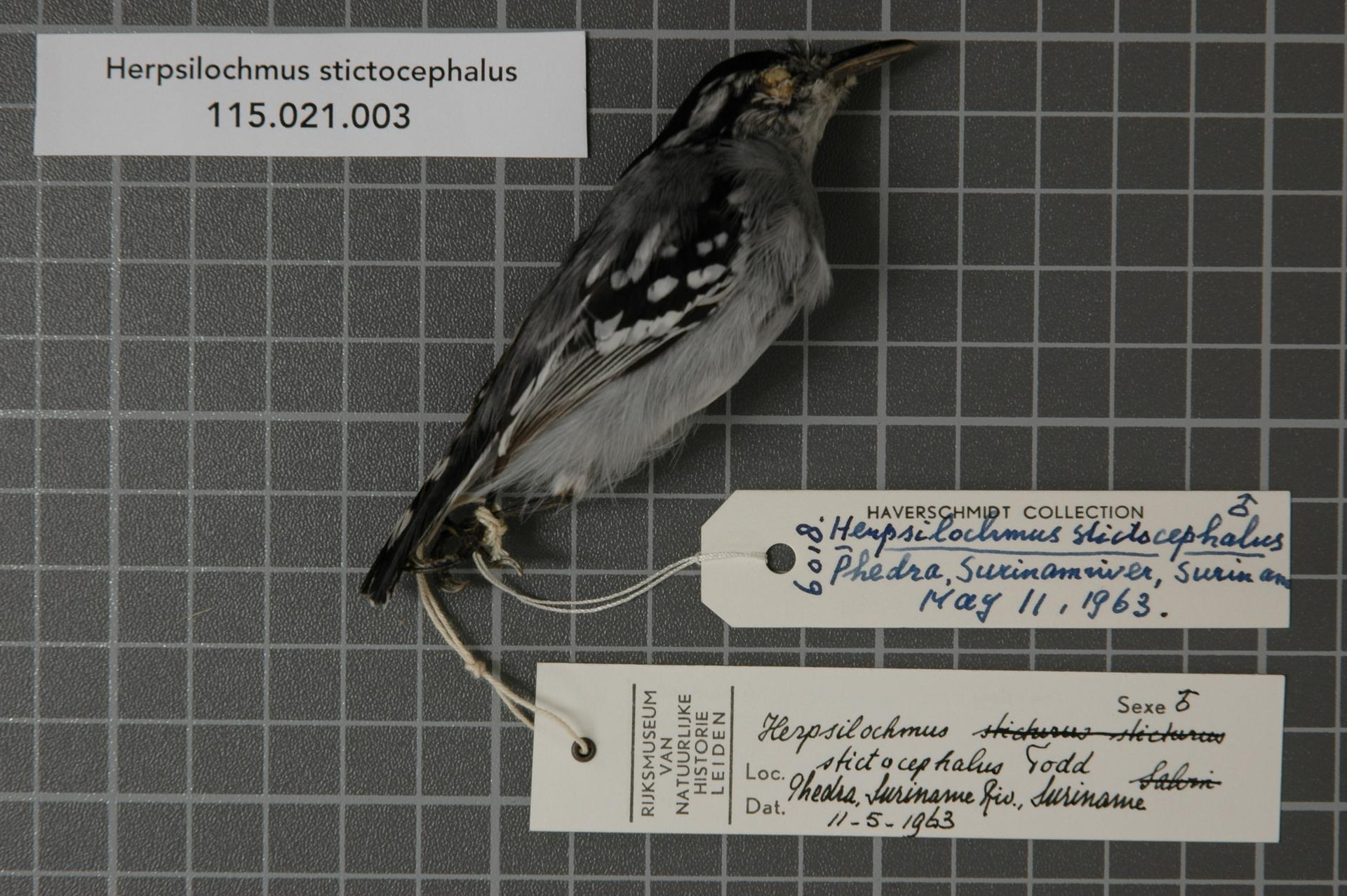 Herpsilochmus stictocephalus Todd, 1927